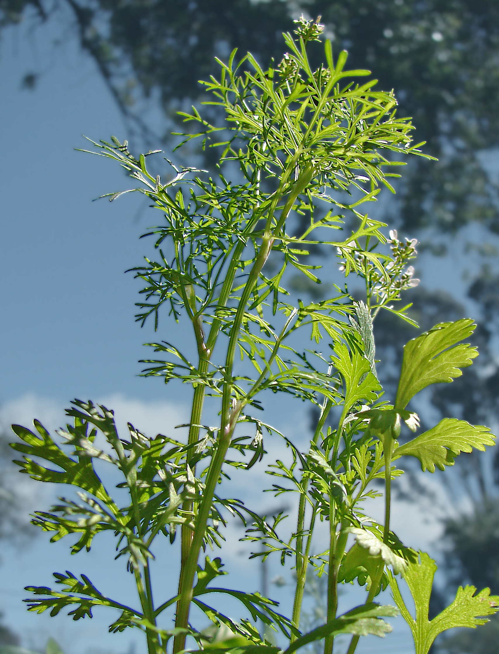 Coriandrum sativum (bolting). Location: Maui, makawao